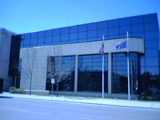 Taken by Alexwcovington